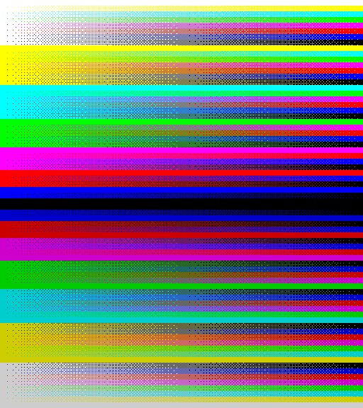 A complete palette, as used by the pixel artists on the Speccy. (Full 'spectrum' employing prepared 8x8 blocks.) = 15 plain colors shown as full rows + 64 dithers per all possible blendings, where the inverted patterns were discarded. The type or look of the patterns is unimportant; what counts is the 1-bit ratio in each 8x8 grid. The accuracy of the dim colors is questionable; 205 in the 3 RGB components seems to be widespread, while the darker 192 values are seen on Wikimedia. Image doable as 6 split screens on the native systems, e.g. with a redefined charset and scrollings. Count = 3585 unique 'colors', i.e. colored characters: 1[black]+(1+2+3+4+5+6+7)[color]x64[dithering]x2[brightness].